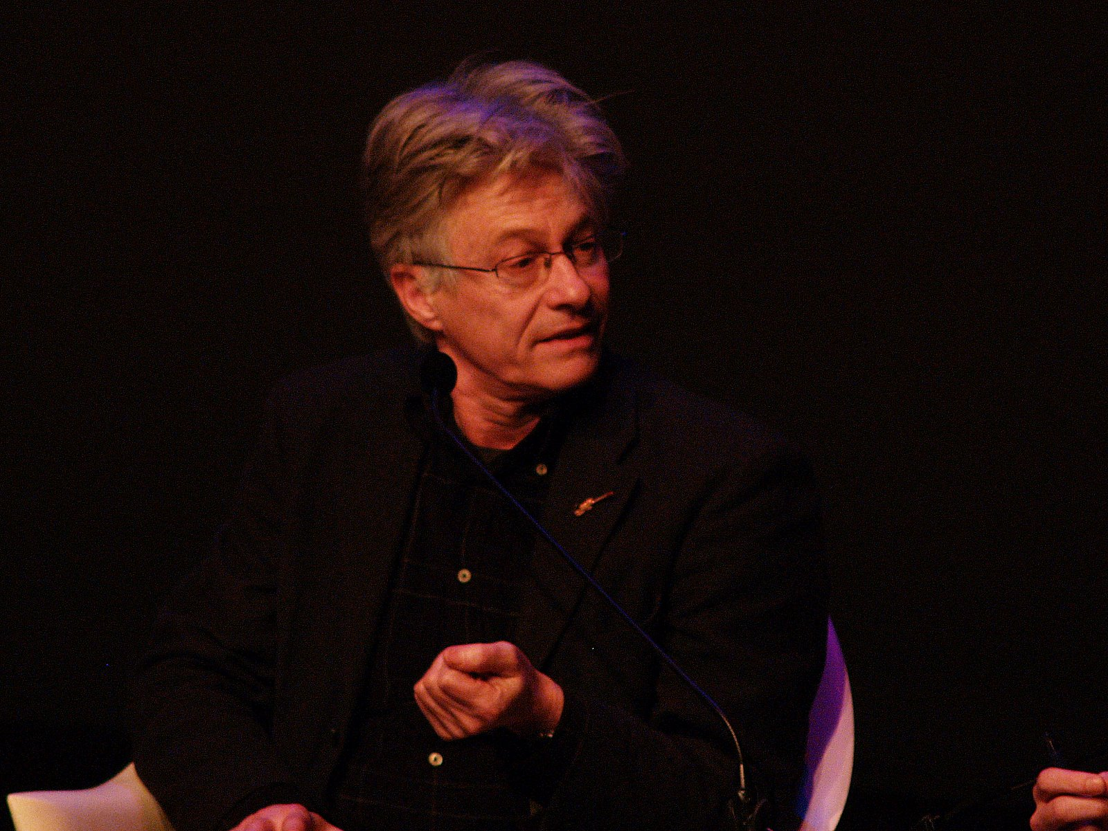 Dick Pels, sociologist en author